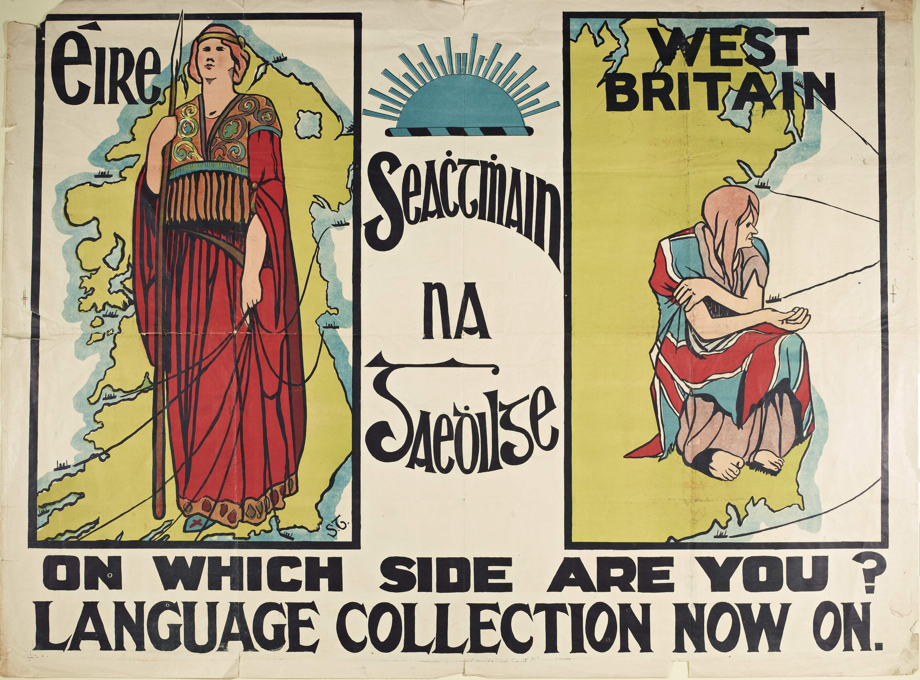 From the National Museum of Ireland description: "The poster depicts two female figures, one representing Éire, the other 'West Britain'. Éire is dressed in a red robe with decorative interlace design at the top; she holds a spear in her hand and ribbons that connect her to ships dotted around the coast of Ireland. West Britain, is dressed in the Union Jack and crouches on the east coast of Ireland looking towards England with outstretched palm." The text reads: Éire (over the left-hand image) In Gaelic script. Éire is the Irish name for Ireland WEST BRITAIN (over the right hand image) West Briton is an Irish nationalist slur for an Irish person seen as deferential to Great Britain. Seaċtṁain na Gaeḋilge (between the images) modern spelling "Seachtain na Gaeilge" ["Week of the Irish language"], a festival run by the Gaelic League ON WHICH SIDE ARE YOU? LANGUAGE COLLECTION NOW ON. (underneath the images)